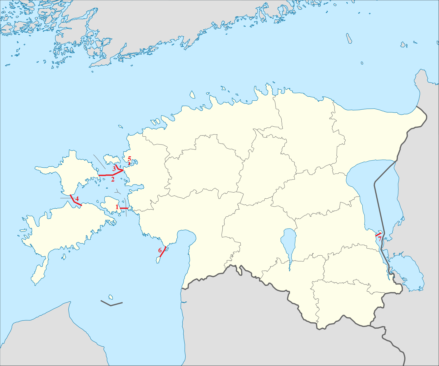 Official ice roads in Estonia during winters when ice conditions allow them to be opened.